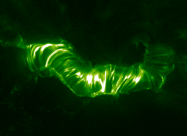 TRACE image of the coronal arcade structure in flare on Bastille Day, 14 July 2000